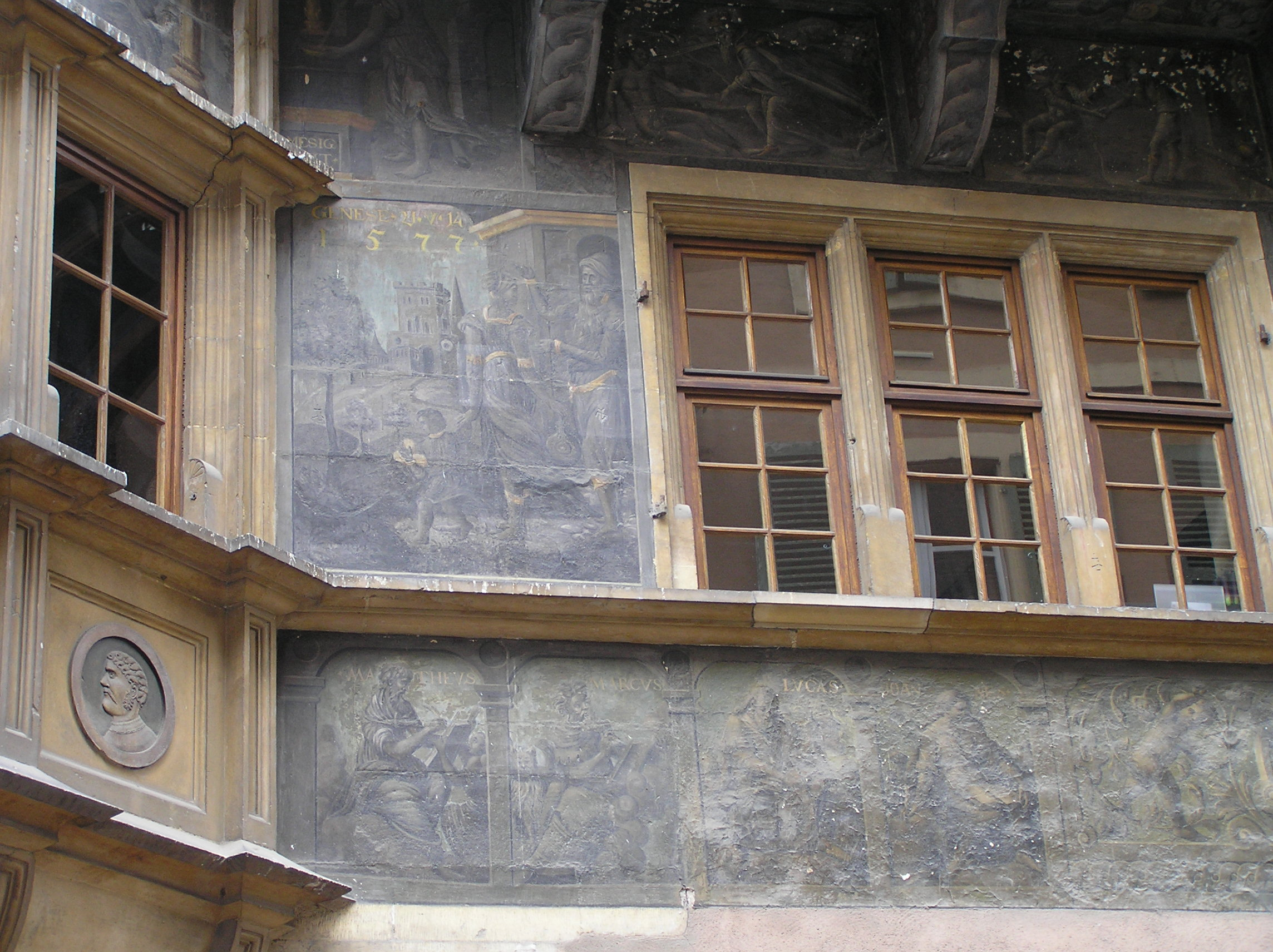 Detail of paintings on Maison Pfister